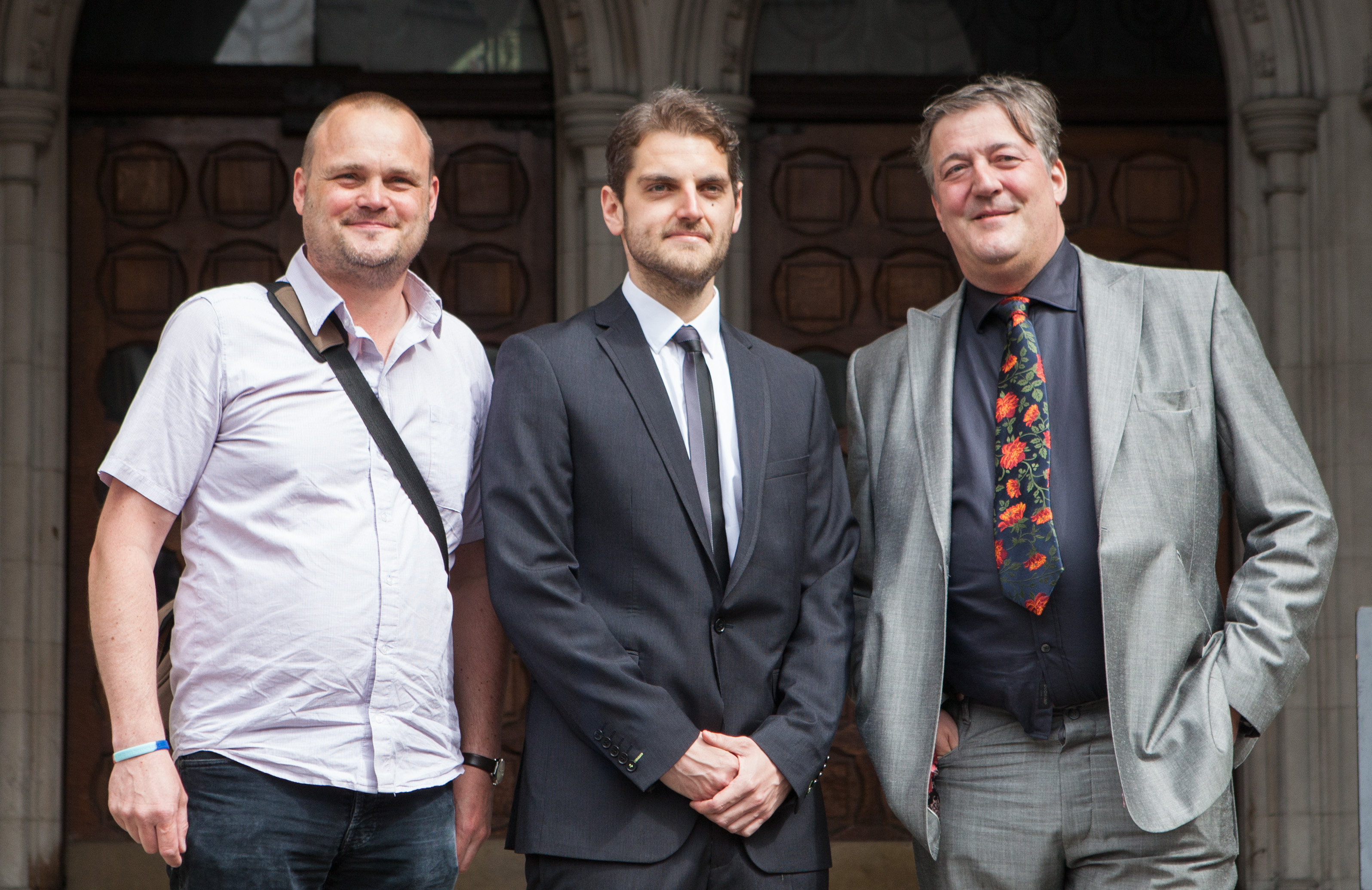 (left to right) Al Murray, Paul Chambers and Stephen Fry outside the High Court outside the 'Twitter Joke Trial' appeal hearing on on 27 June 2012. Photography by Paul Clarke.